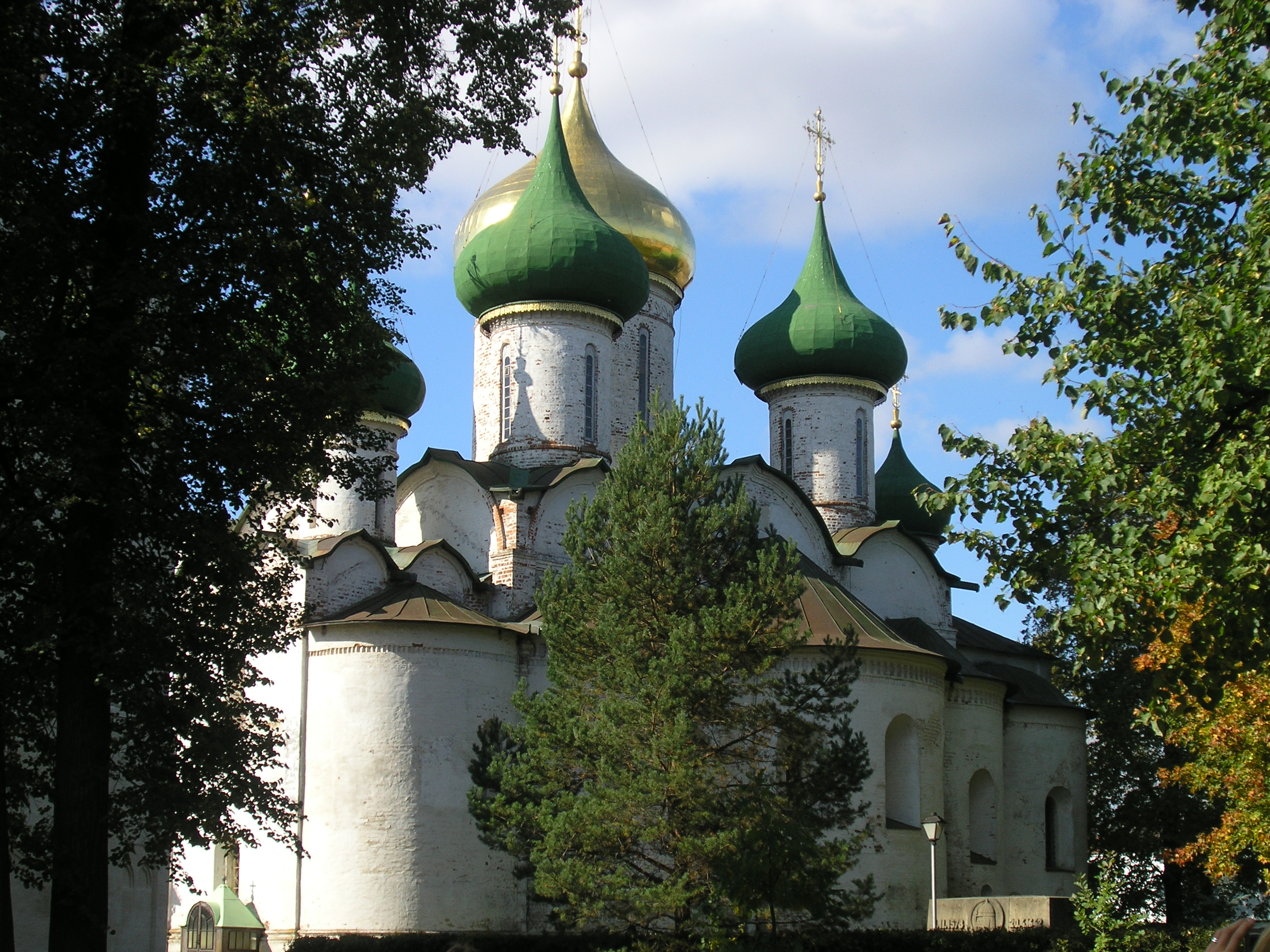 Transfiguration Cathedral. Suzdal, Russia.